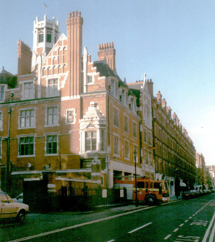 Waiting for the call. A fire engine waits in the entrance of Marylebone Fire Station, Chiltern Street, W1.